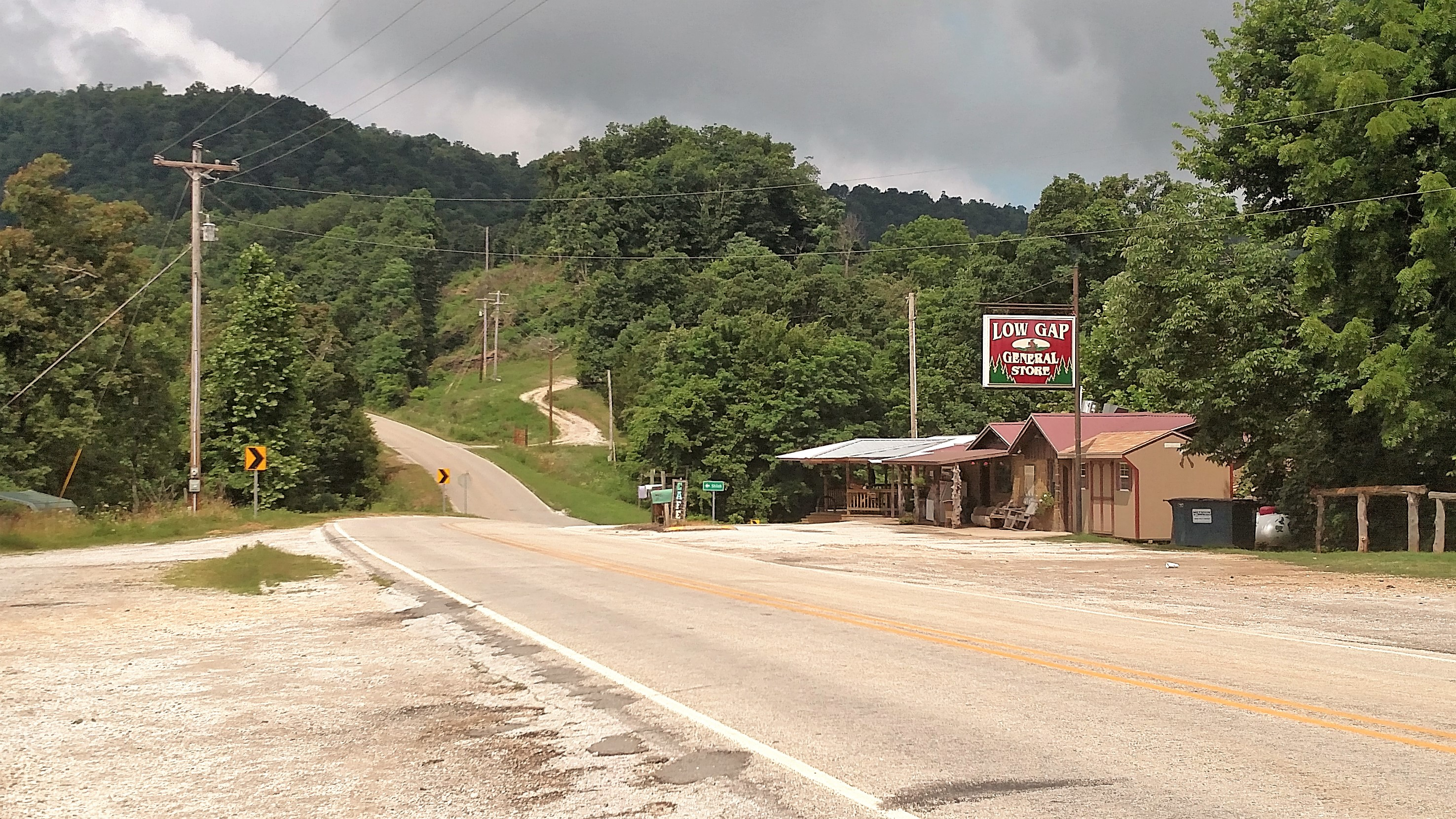 A view of the Low Gap community from the roadside, showing the hilly terrain of Newton County